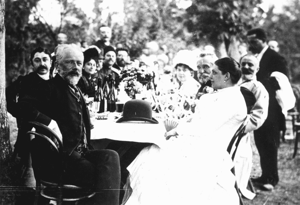 Pyotr Ilyich Tchaikovsky in a lunch at Ortachala gardens in Tbilisi. The musician is the first on the left.